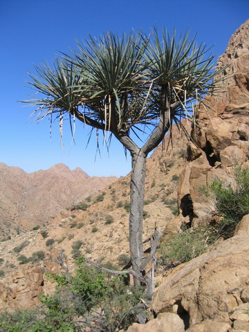 endangered Dracaena ombet in Gabel Elba Protected Area in Egypt